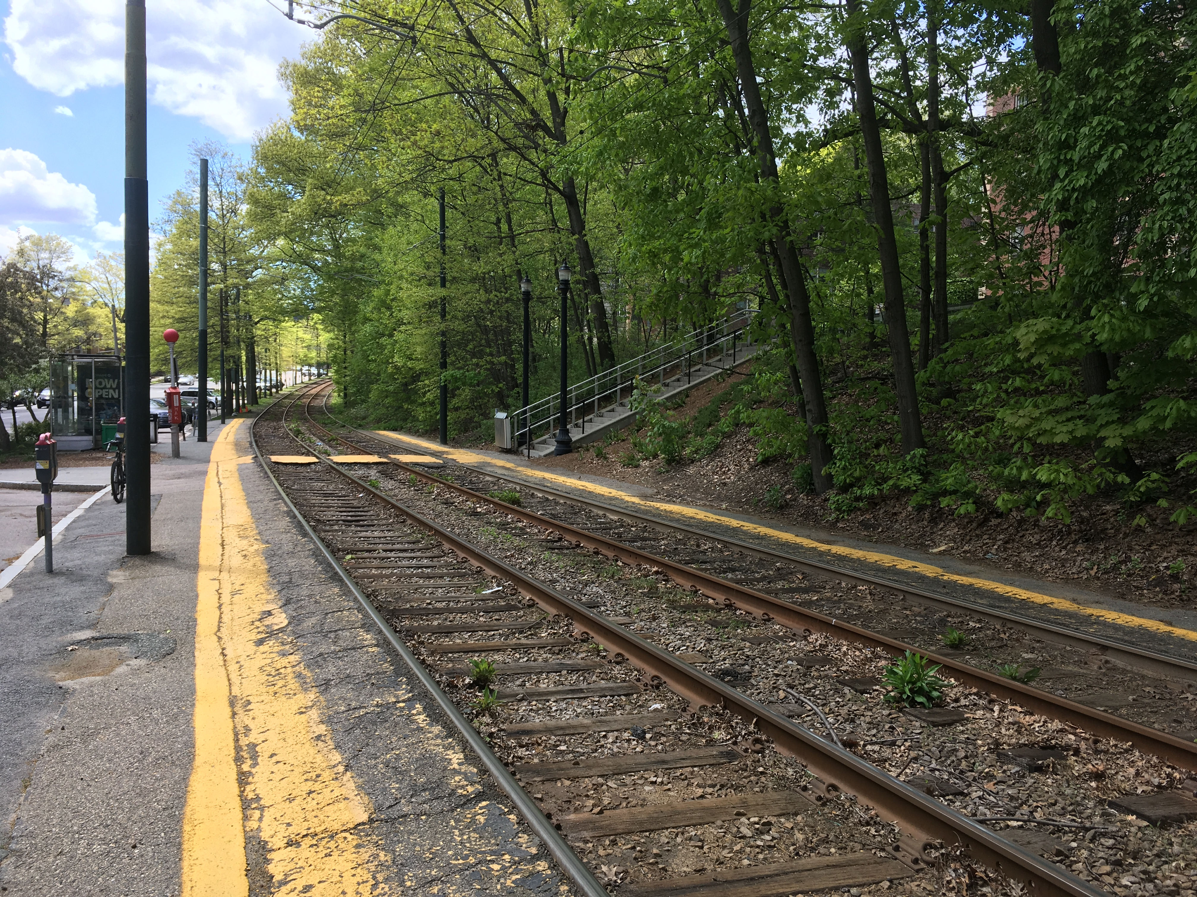 Brandon Hall, MBTA Green Line (C) Cleveland Circle via Beacon St. Looking west. May 2019.